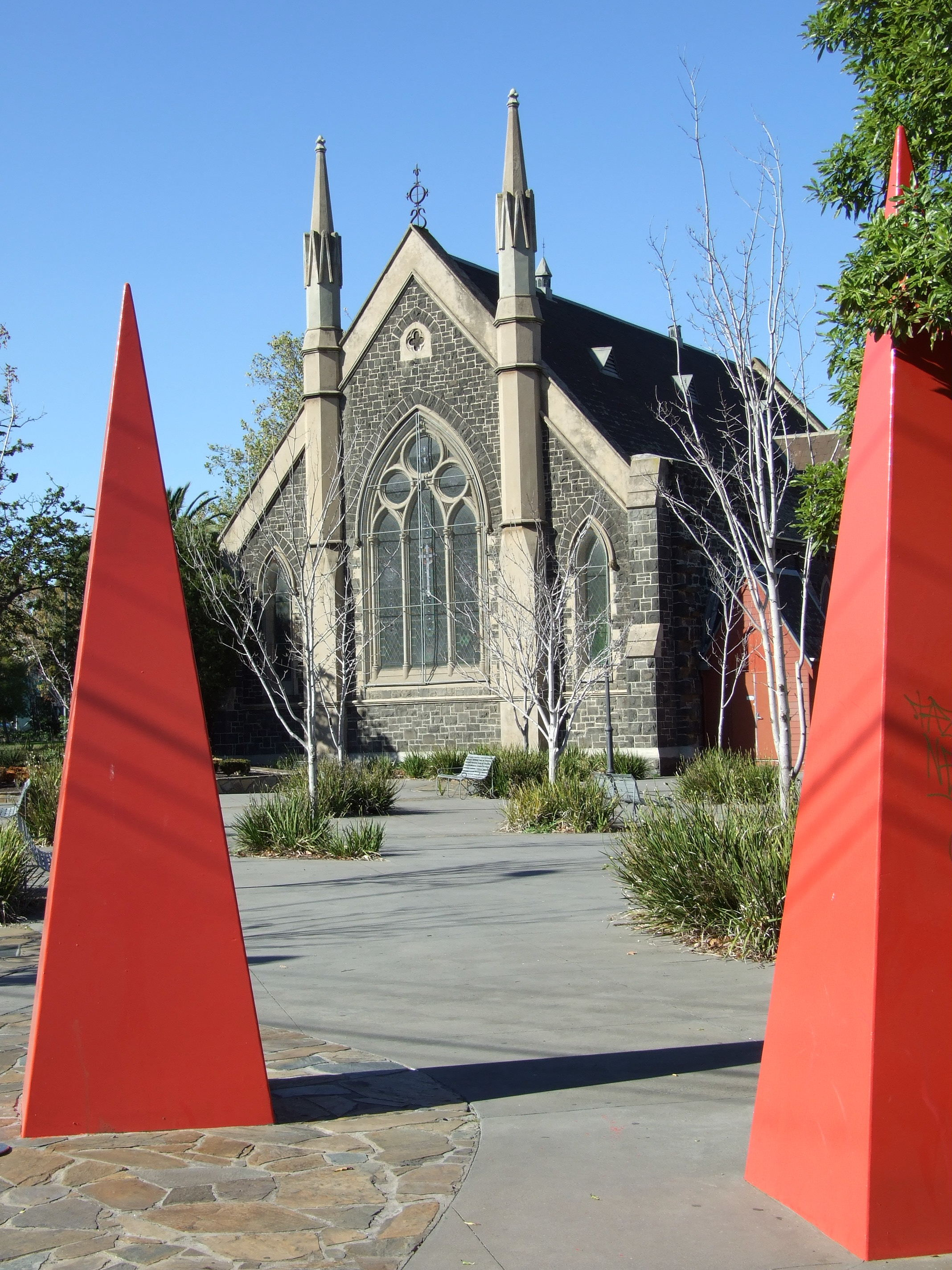 Chapel Off Chapel Arts Centre, Little Chapel Street, Prahran, Victoria, Australia